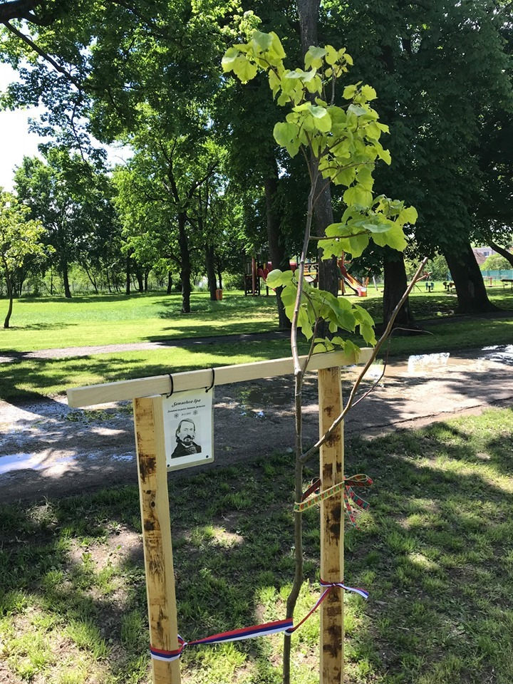 The tree of Samuel Jurkovic in Sobotiste